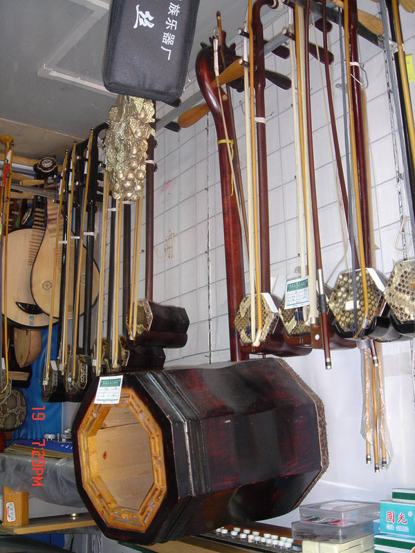 A dadihu (large "modernized" bass version of the erhu). Image by Kimchi8.